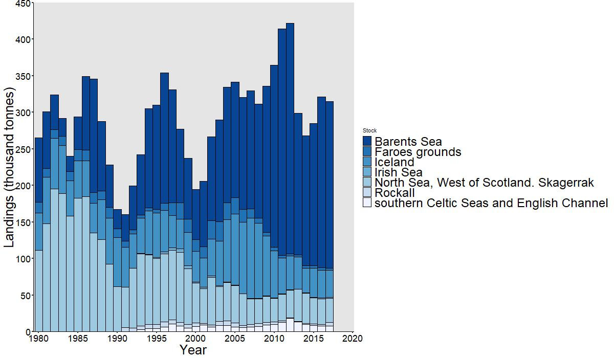 Landings of haddock in the eastern Atlantic in the period 1980-2017. Data from ICES.